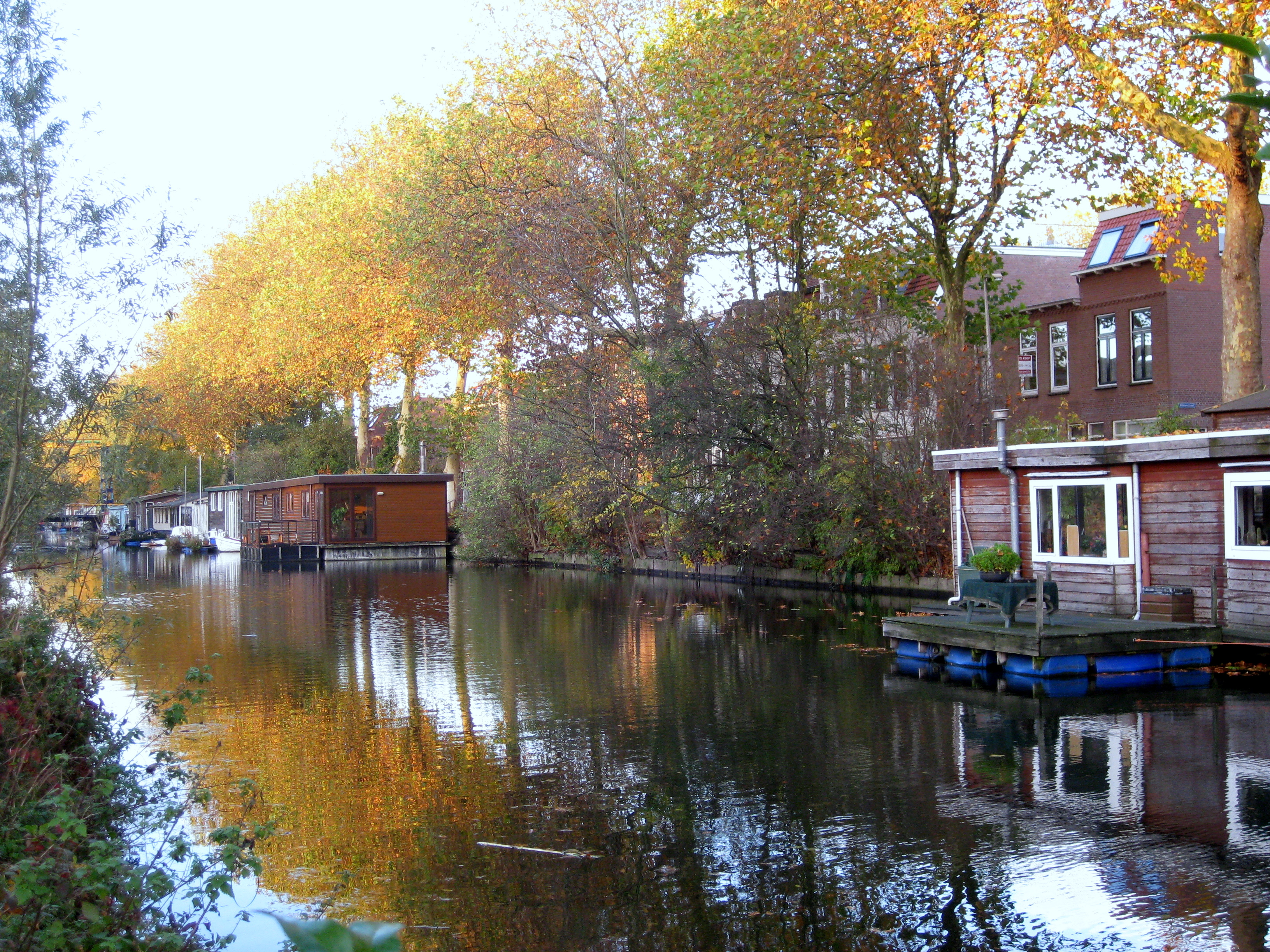 The Oude Rijn near the Billitonkade, Utrecht